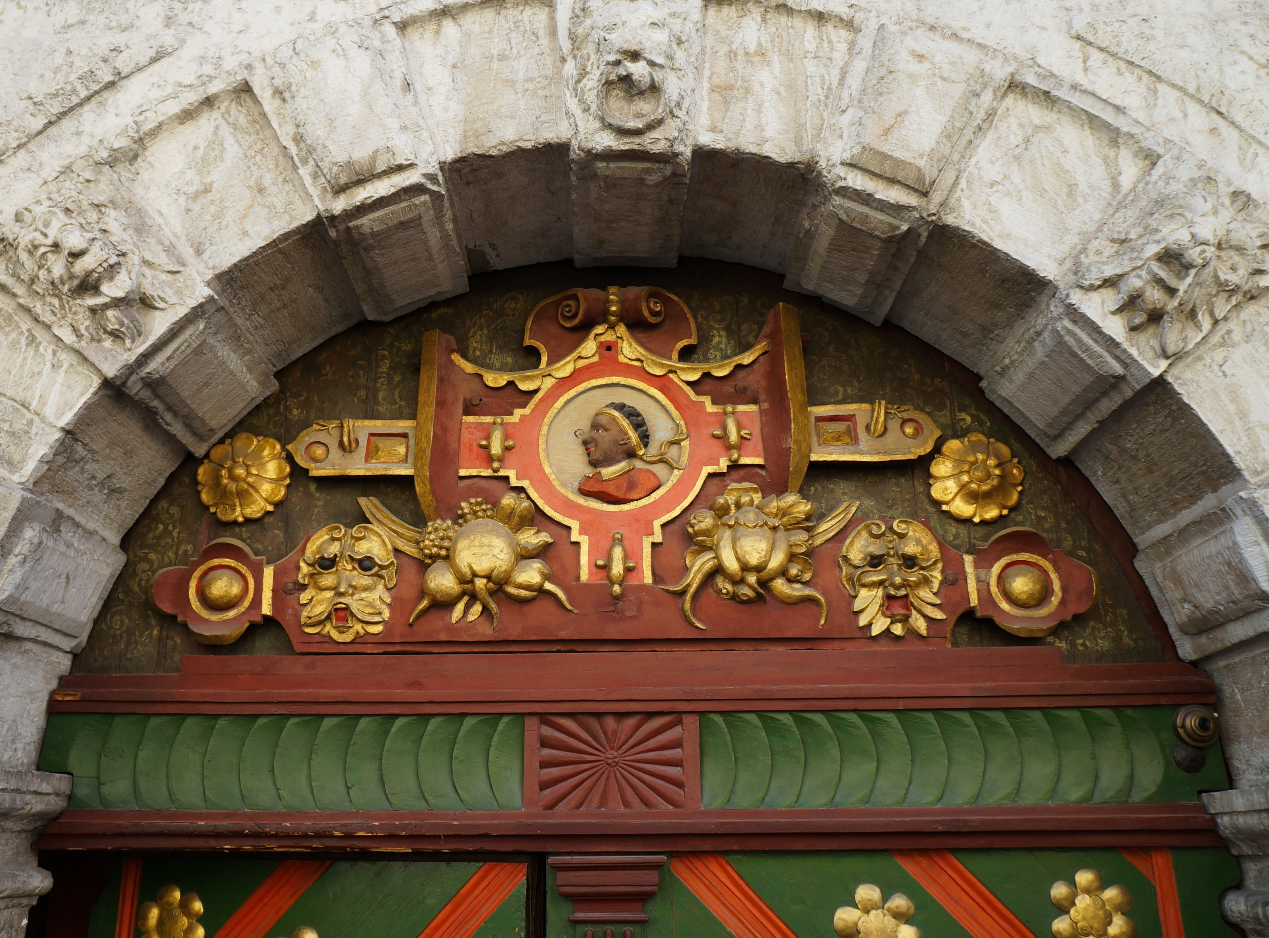 House of "Brotherhood of Black Heads", Tallinn.